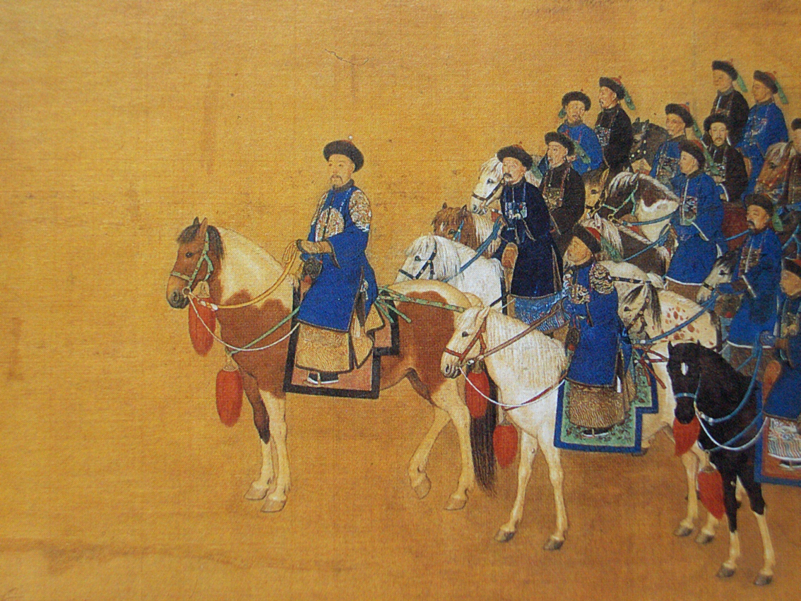 Qianlong and his court